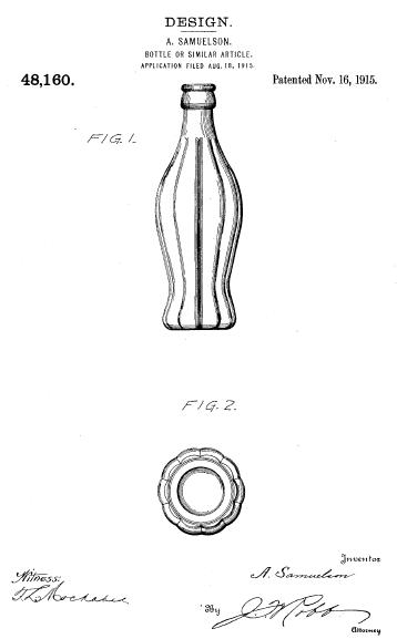 Page from US design patent 48,160, Nov. 16 1915